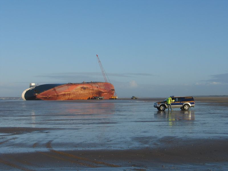 Riverdance capsized.